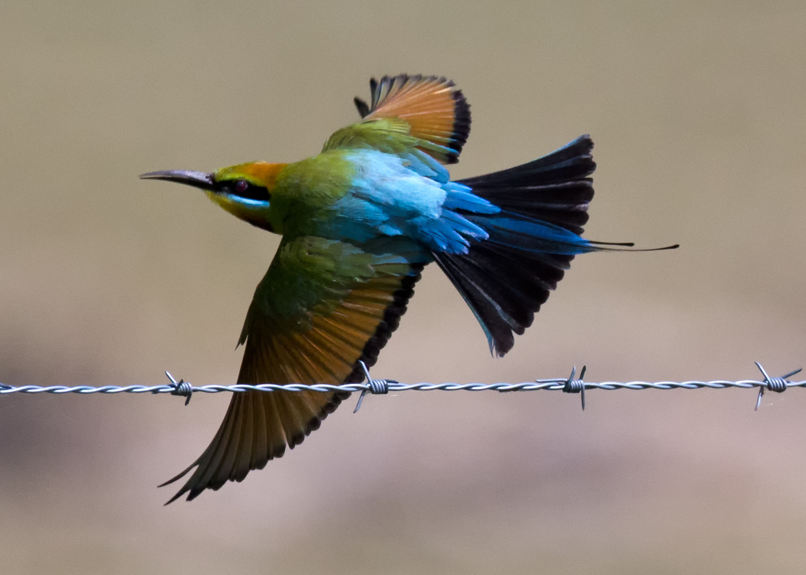 lots of these on the station. Male and female feeding from the fence